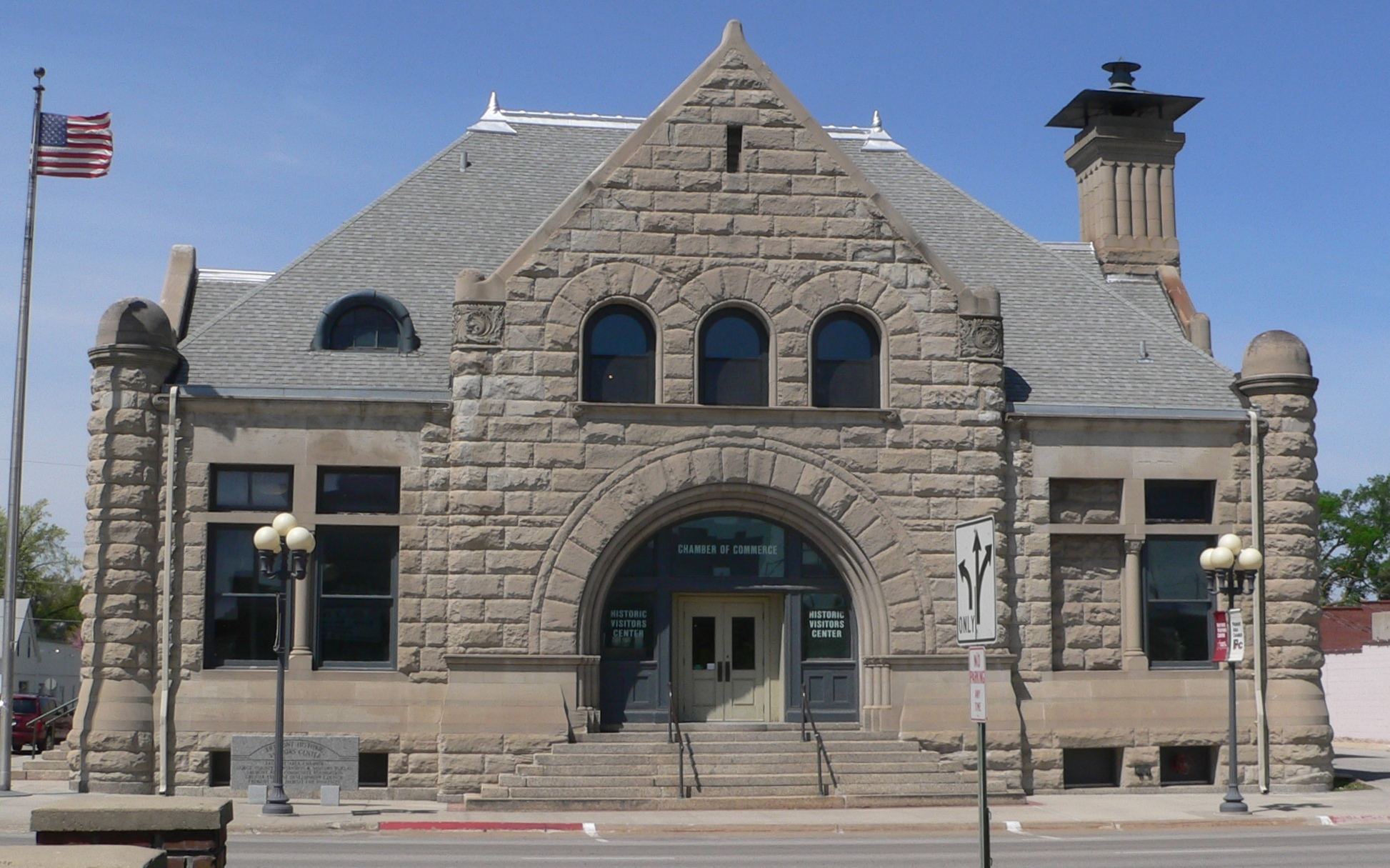 Old Fremont Post Office in Fremont, Nebraska; seen from the east. The Richardsonian Romanesque building was constructed in 1893, and is listed in the National Register of Historic Places. It is no longer in use as a post office; it currently houses the Fremont Chamber of Commerce and visitor center.